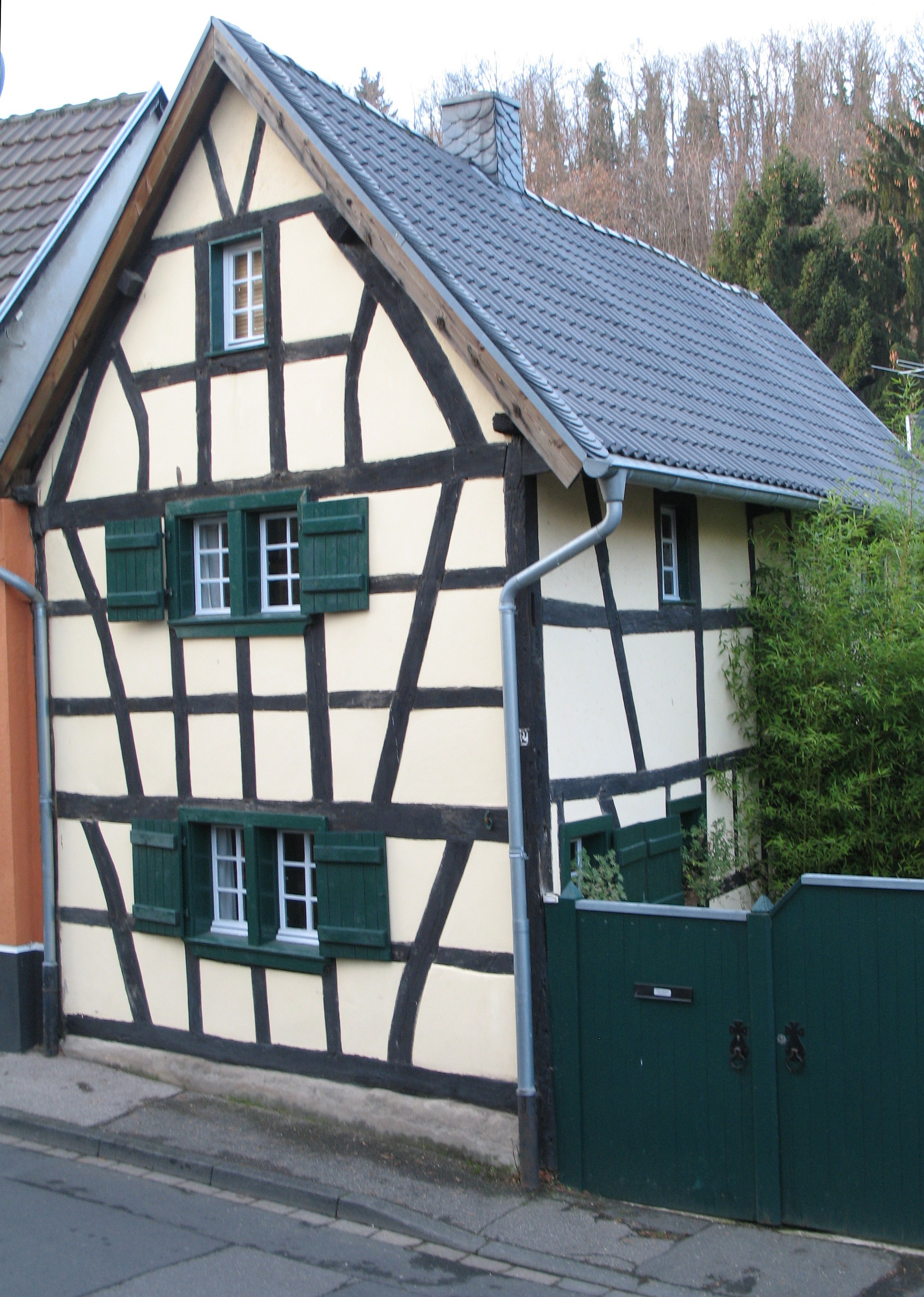 Old timber framed house in Euskirchen-Kreuzweingarten village, Eifel region of Germany